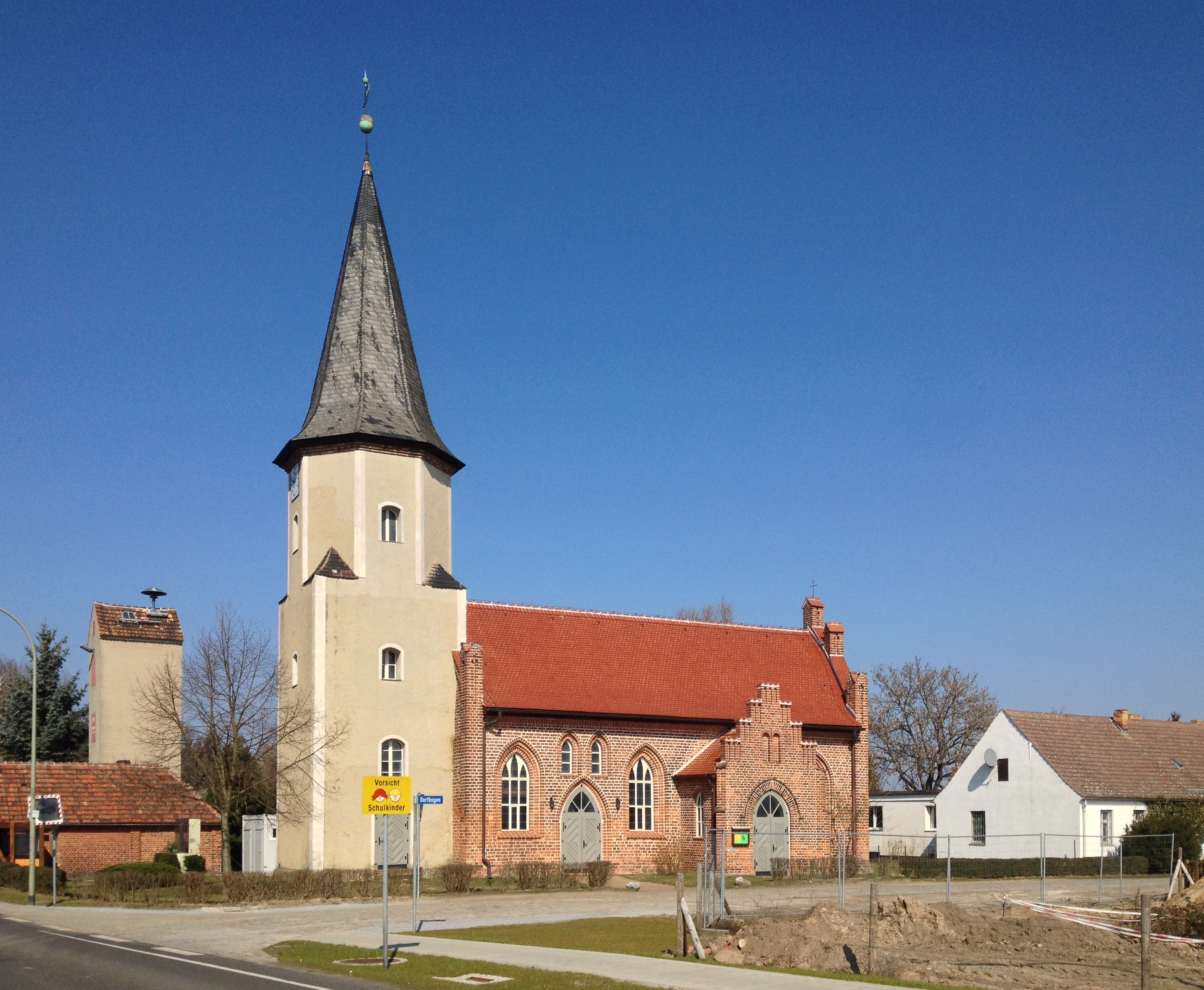 Protestant Church in Hänchen